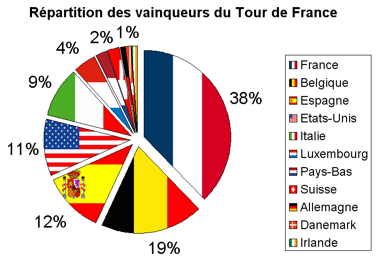 Pie chart of Tour de France winners by nationality, as of 2008